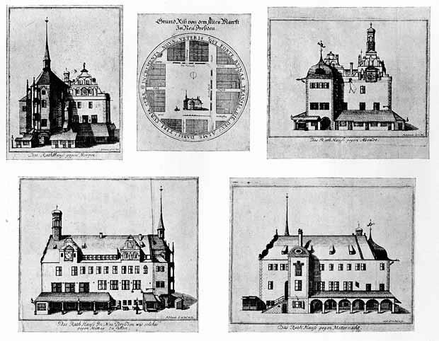 Dresden